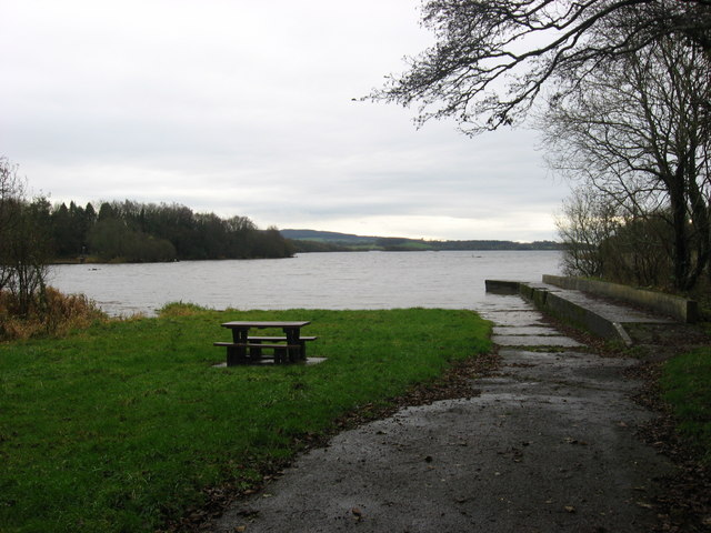 Landing stage, Lough Sheelin, Co. Cavan. On the north east shore of L. Sheelin in townland of Crover.